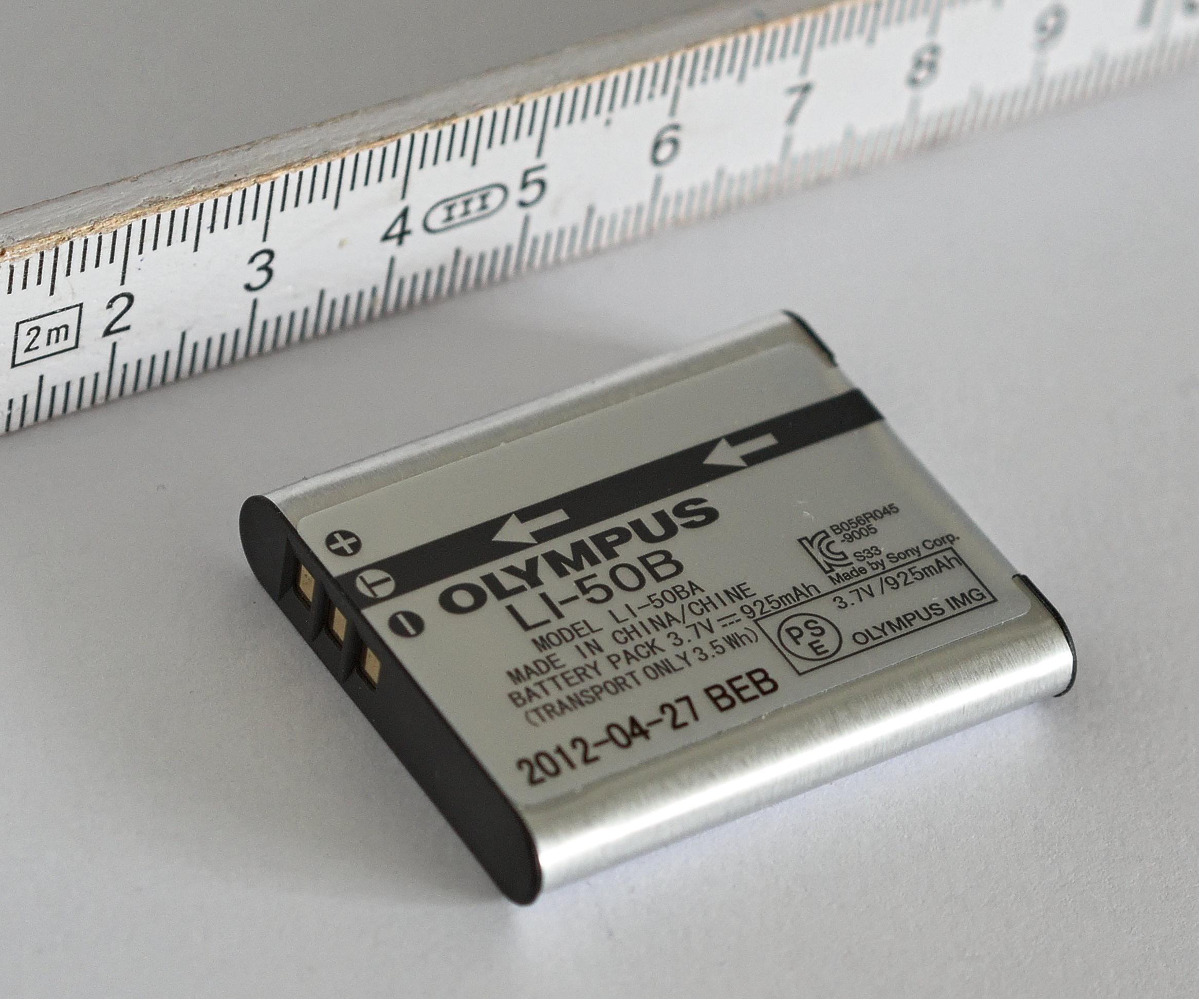 Olympus Li-Ion battery type LI-50B with ruler for size comparison